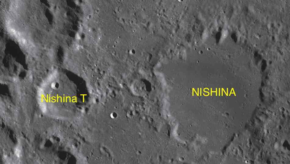 Part of the chart LAC-120 used for the presentation